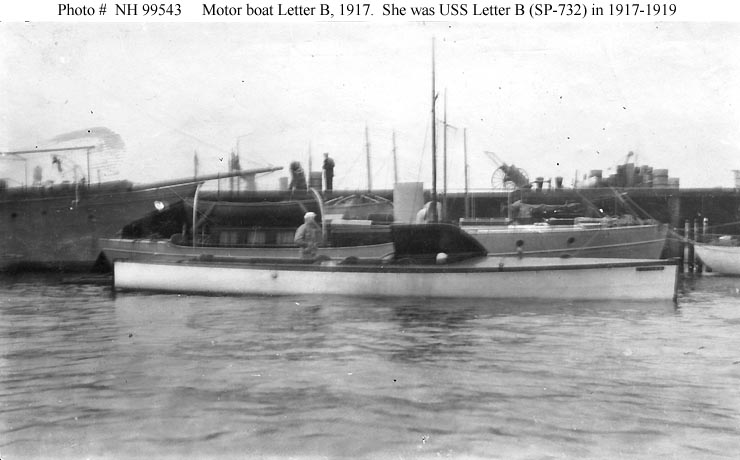 The private motorboat Letter B, probably at the time the United States Navy avquired her for service as the patrol vessel